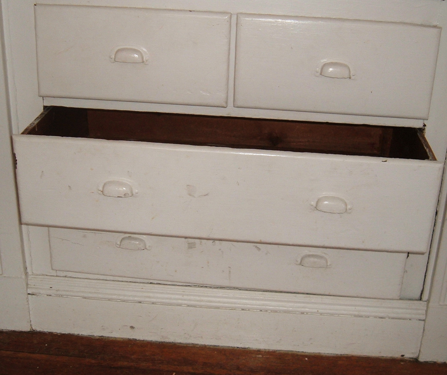 A Drawer.